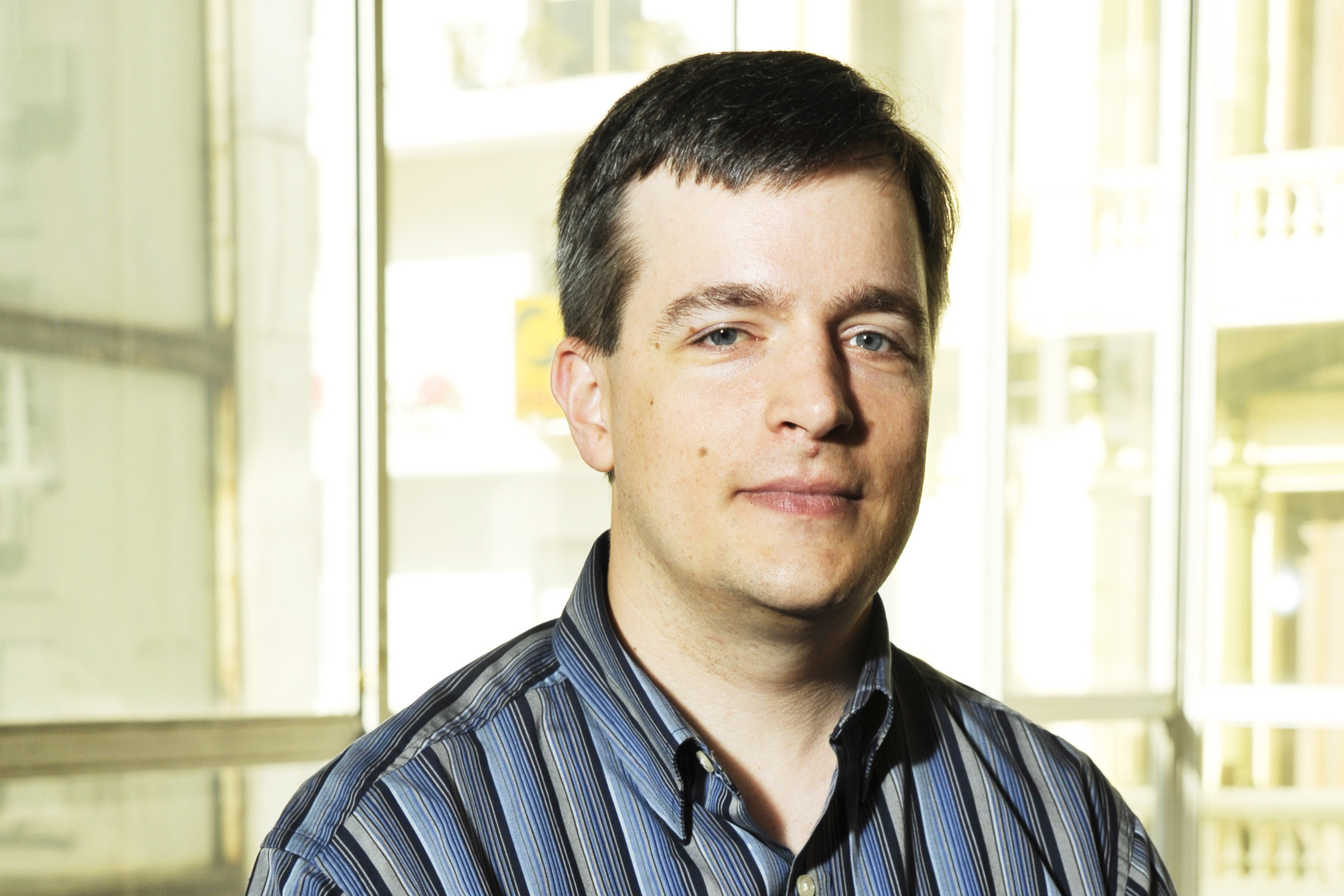 Wikimedia Foundation Board Member Michael Snow